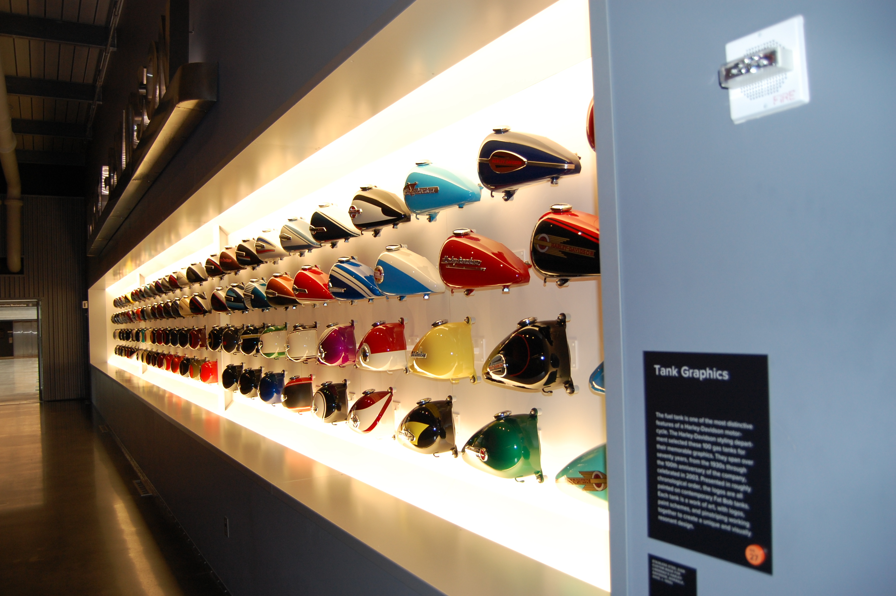 Tank Wall exhibit at the Harley-Davidson Museum in Milwaukee, WI.